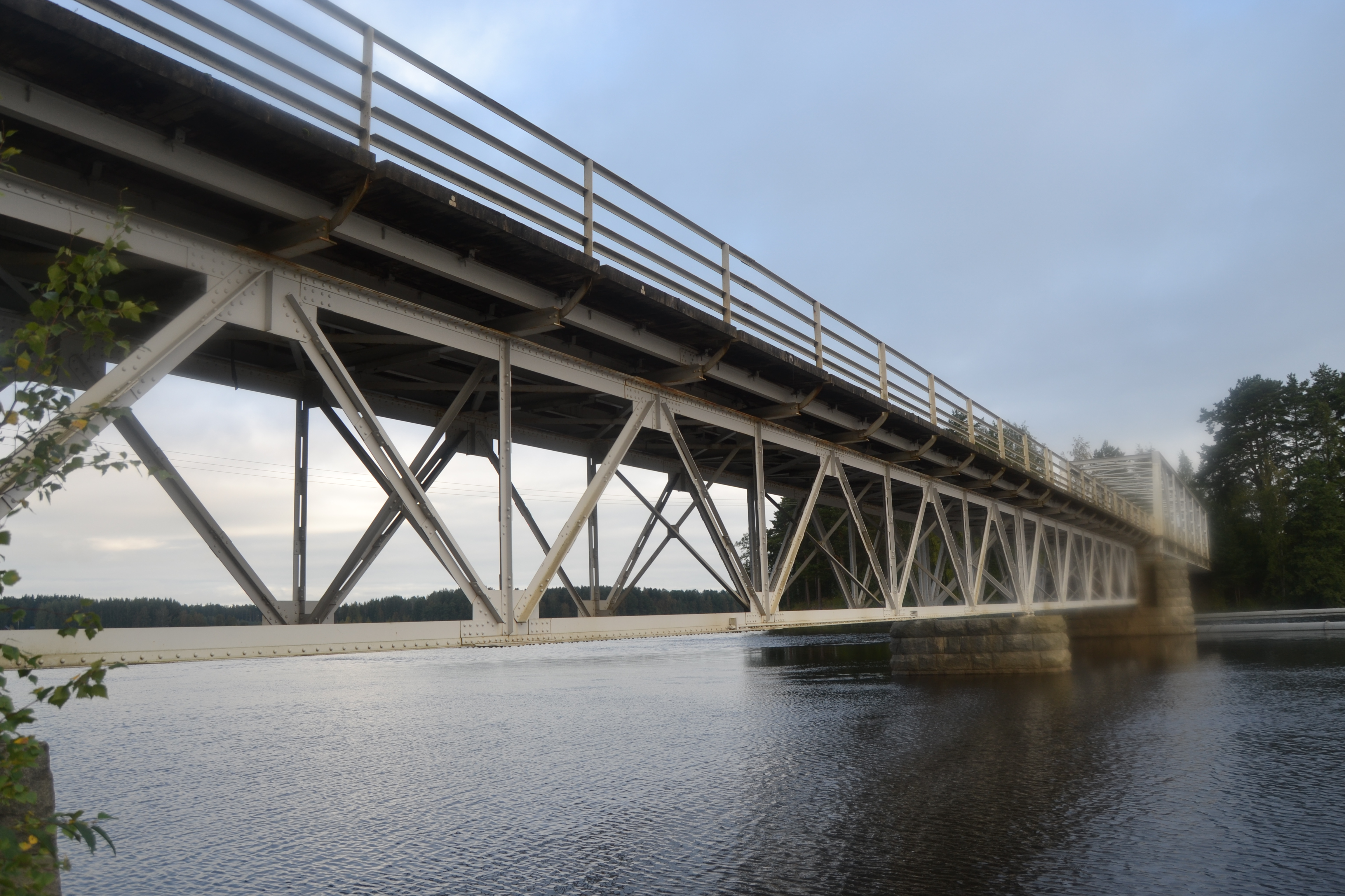 Vuonteensalmi bridge carrying regional road 640 in Laukaa, Finland